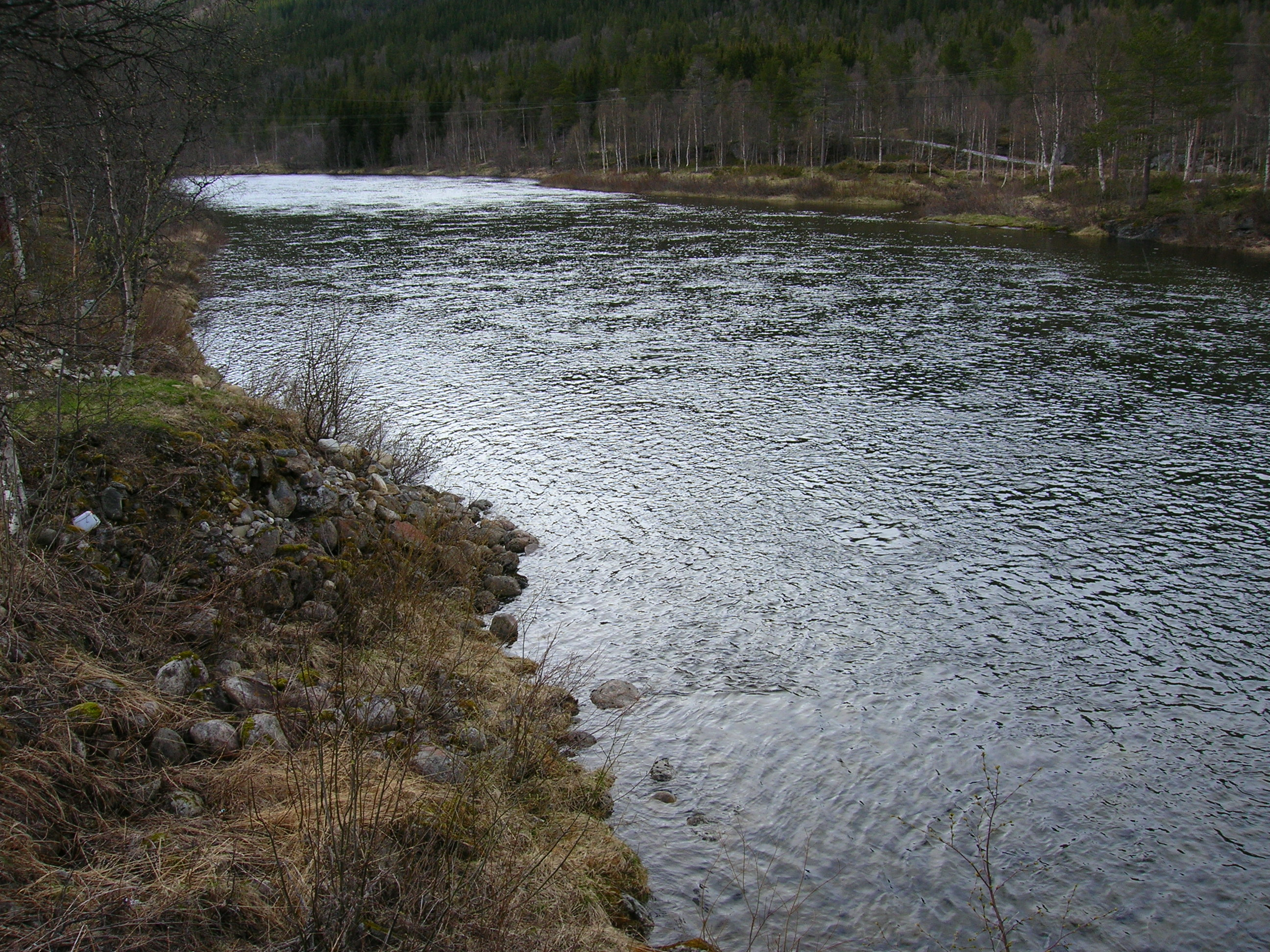 Ranelva seen from the bridge of Krokstrand, Dunderlandsdalen, in Rana municipality, county of Nordland, Norway, Photo 27 May, 2007 with a Nikon Coolpix 5600 5,1 Megapixel camera.